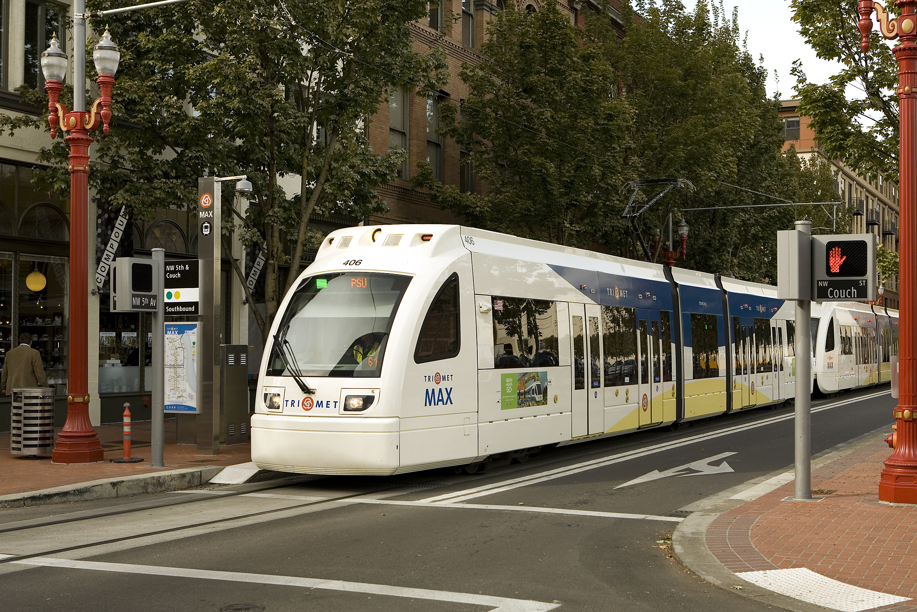 A MAX Green Line train southbound on the Portland Mall, on NW 5th Avenue at Couch Street, in 2009. This train is composed of two TriMet "Type 4" light rail cars, which are Siemens S70 vehicles.